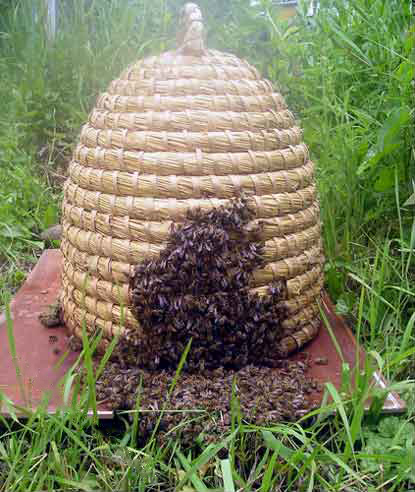 knitted beehive